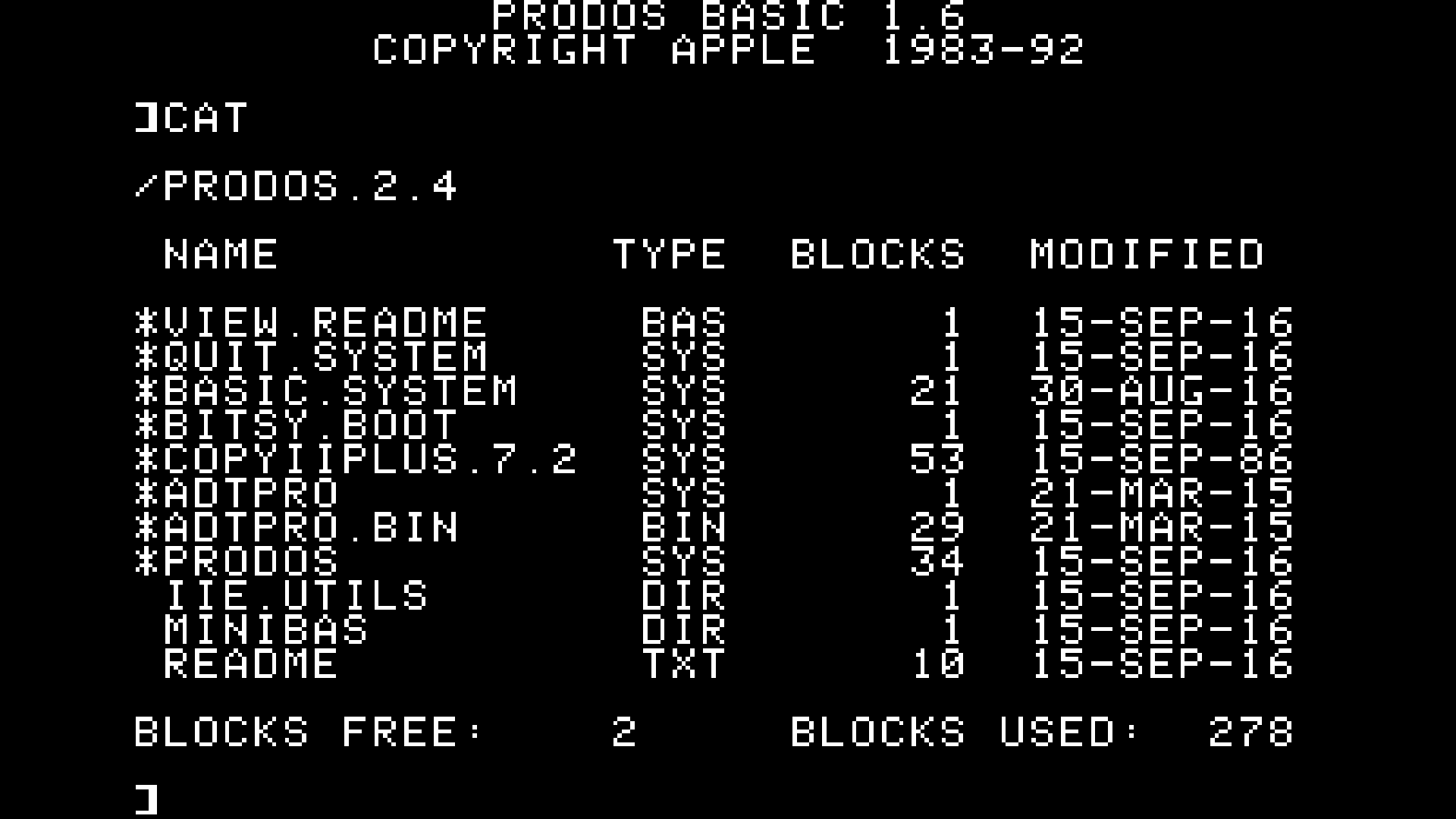 Catalog PRODOS 2.4